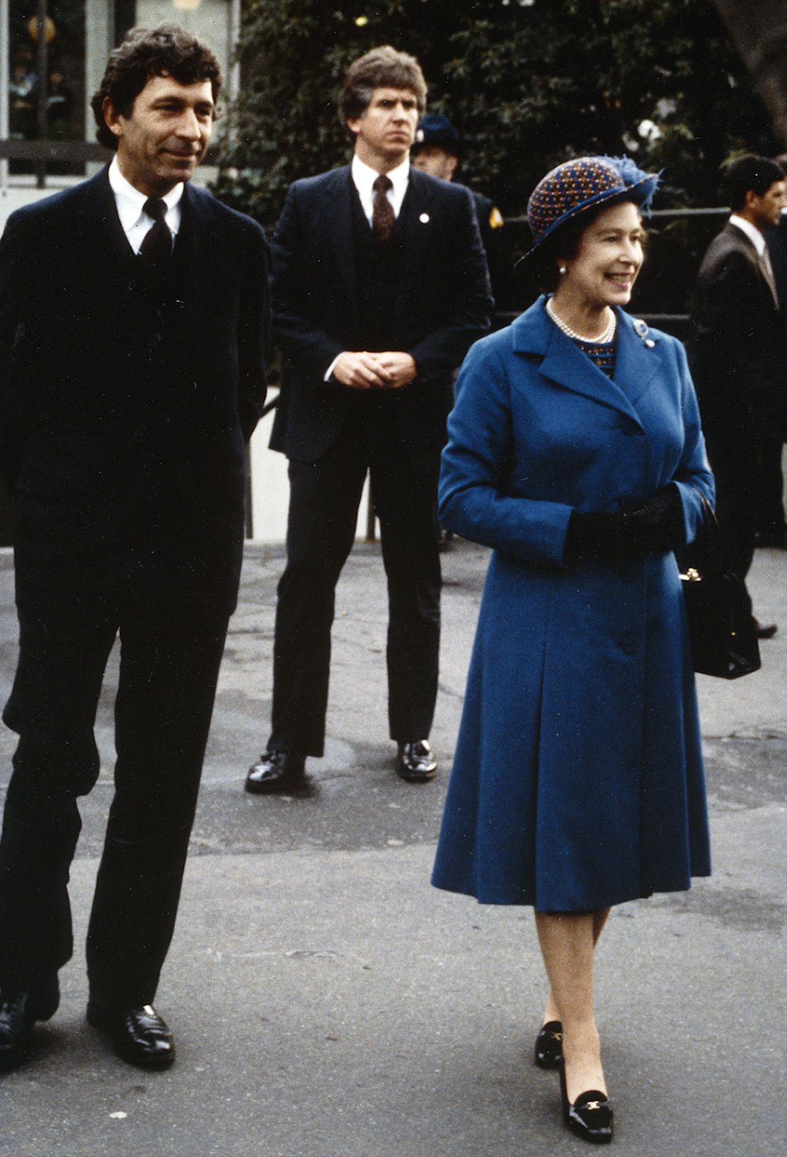 Seattle Mayor Charles Royer with Queen Elizabeth II of the United Kingdom, 1983. Item 170874, Jeanette Williams Photographs (Record Series 4693-11),Seattle Municipal Archives.